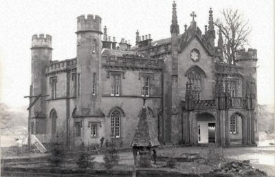 Cambunethan House 1825